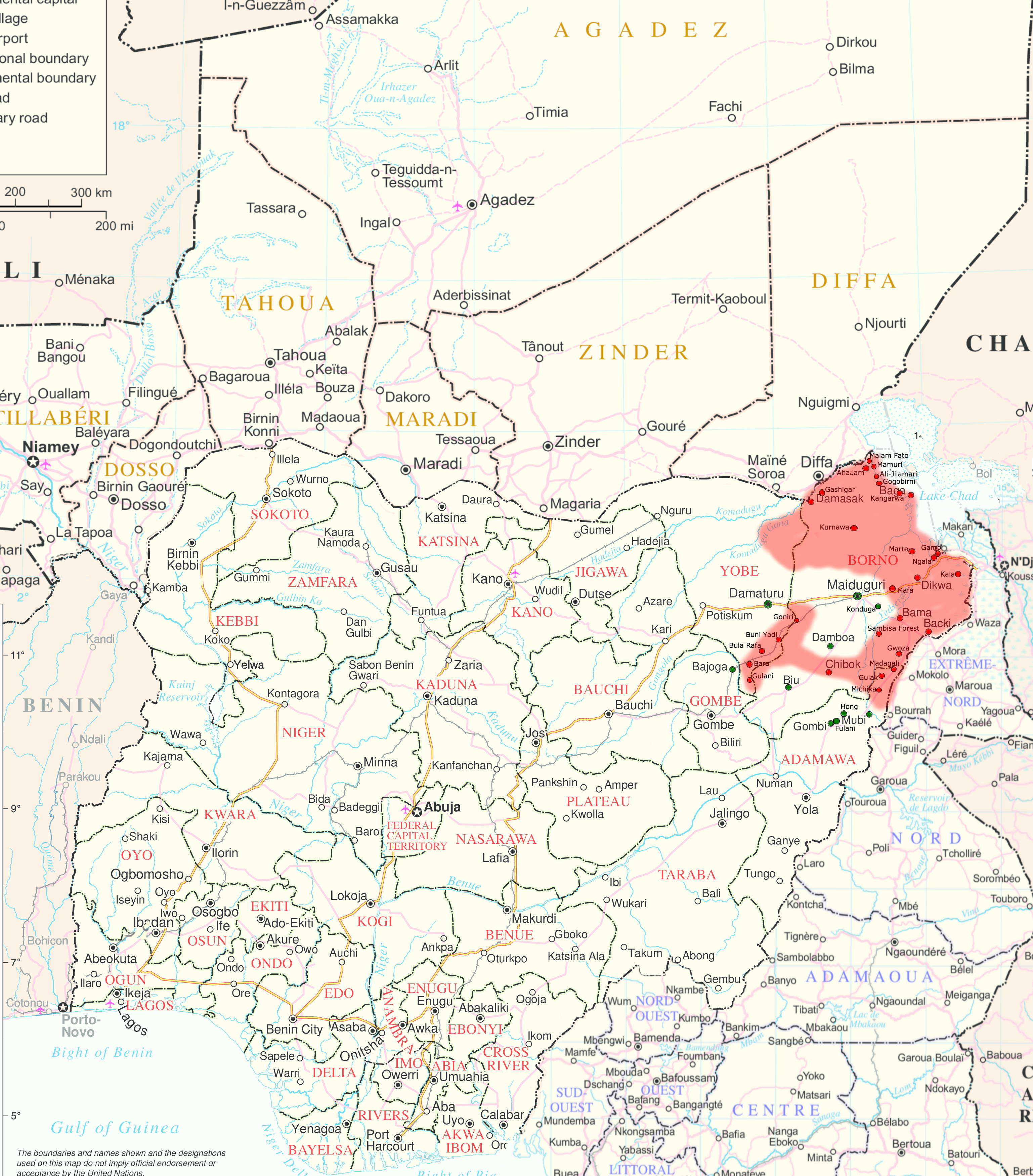 A map showing the towns controlled by Boko Haram in the Lake Tchad region.